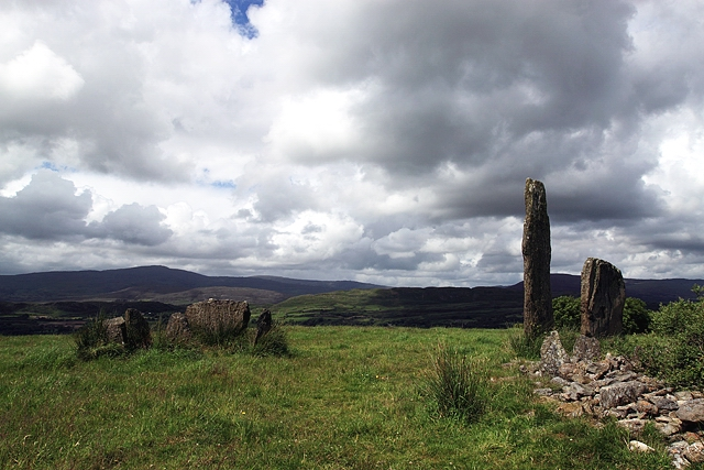 Kealkill Stone Circle (2), near to Ardrah and Kealkill, Cork, Ireland.